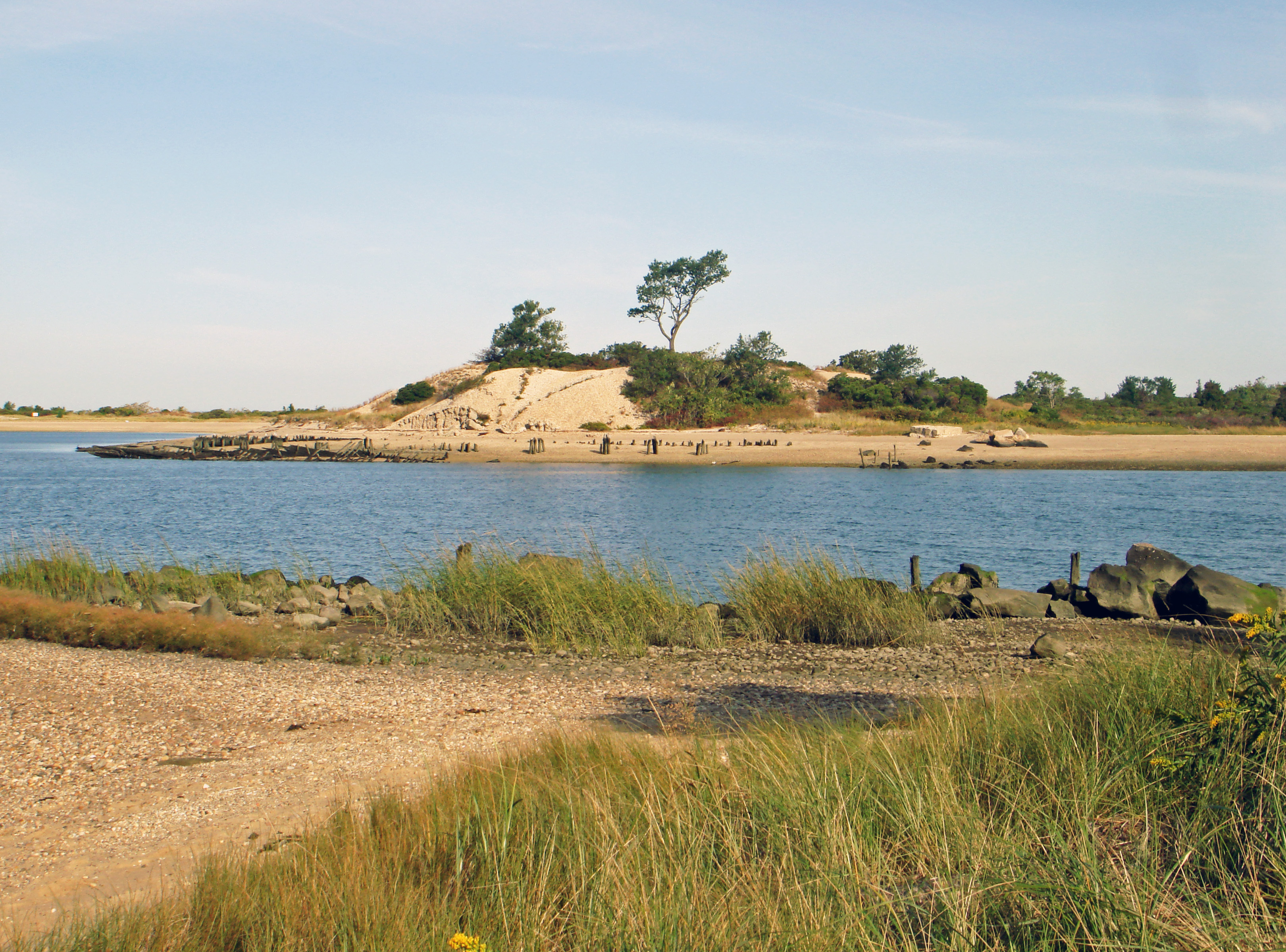 Mount Misery Point, occupied by McAllister County Park on the east side of Port Jefferson Harbor in Belle Terre.